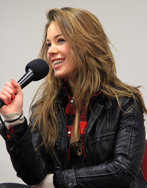 Collectormania 18's 'Game of Thrones' talk featuring Lena Headey, Natalia Tena and Roxanne McKee. 03-06-2012